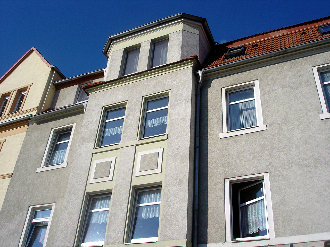 European apartement building. Apparently in Germany, due to similarities in building and time stamp to another image by the same author, File:Tenement.jpg.